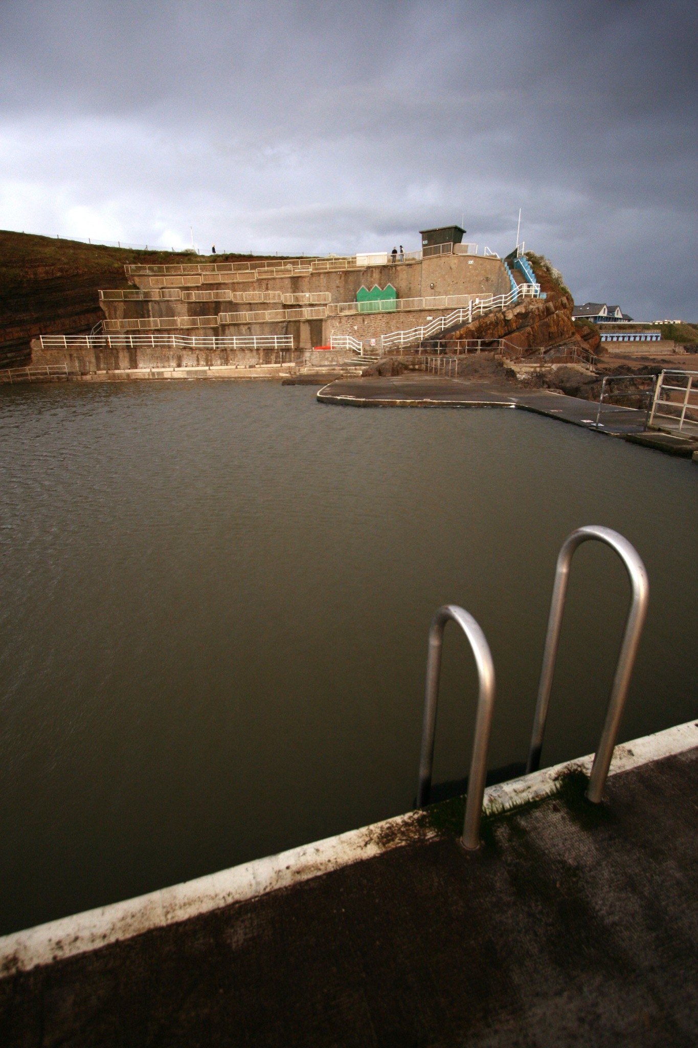 Summerleaze Sea Pool, Bude.